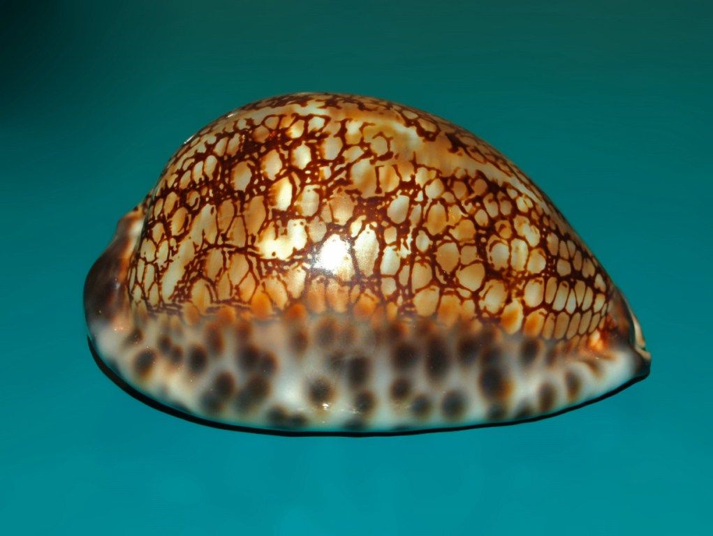 Mauritia maculifera - Rangiroa, Polynesia